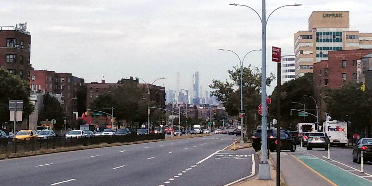 The two tallest buildings seen, the lighter color on the left is 432 Park Avenue, while the darker color on the right is the Central Park Tower to be capped.